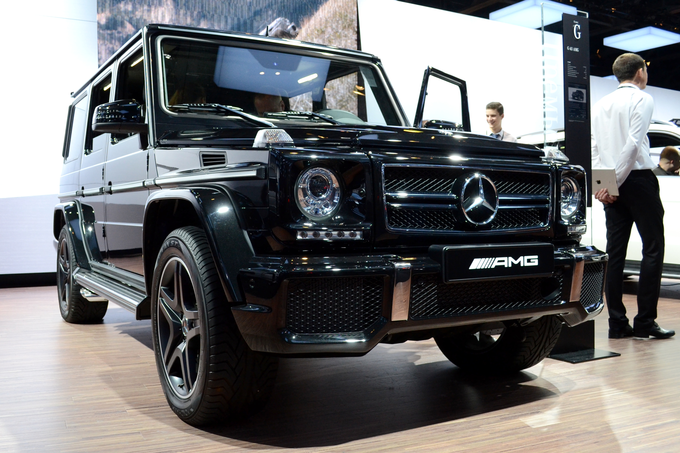 Mercedes-Benz G 63 AMG (2012), Moscow International Automobile Salon’2012